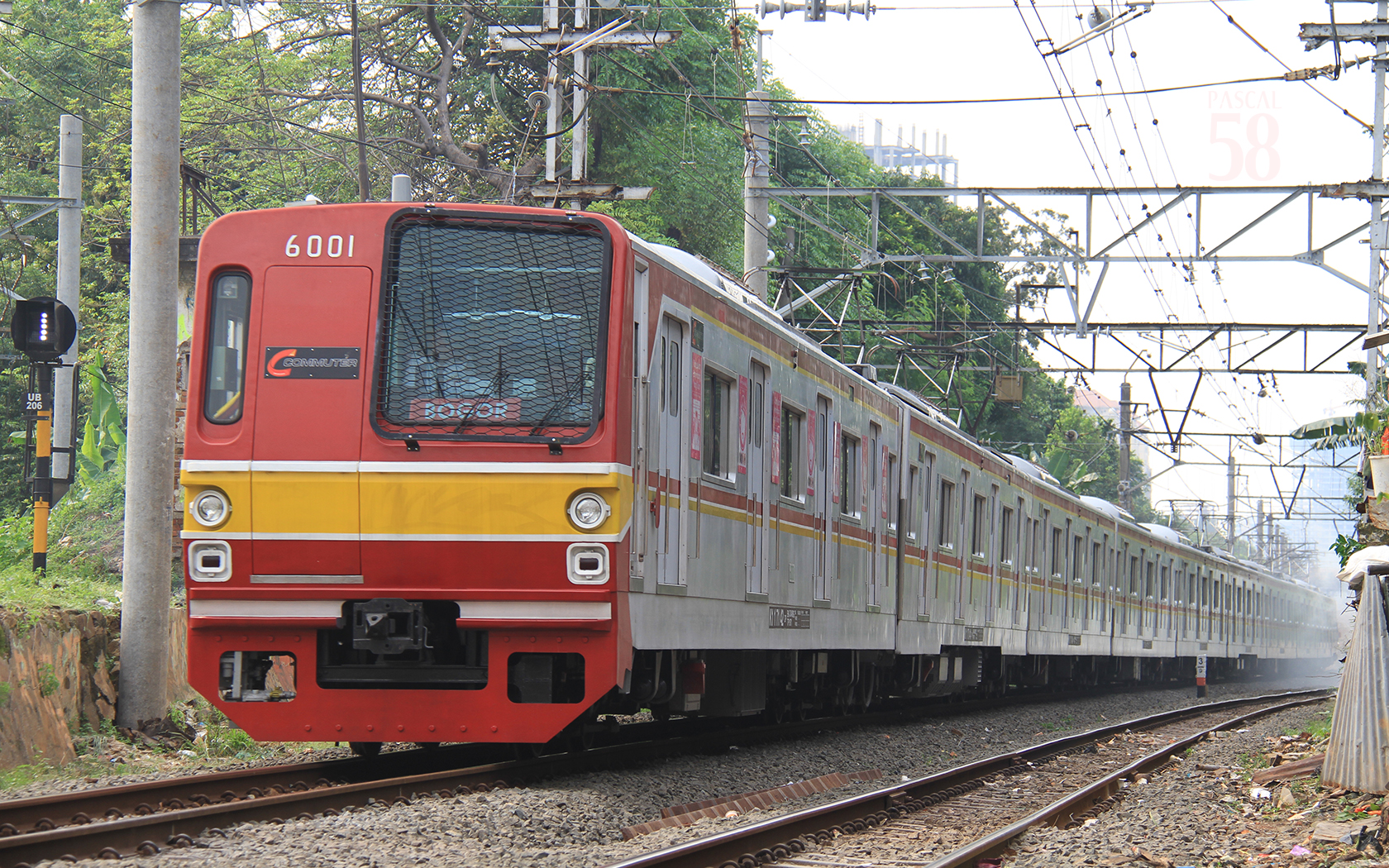 Former Tokyo Metro Chiyoda Line 6000 series EMU set 6101 on an afternoon service for Bogor in Indonesia